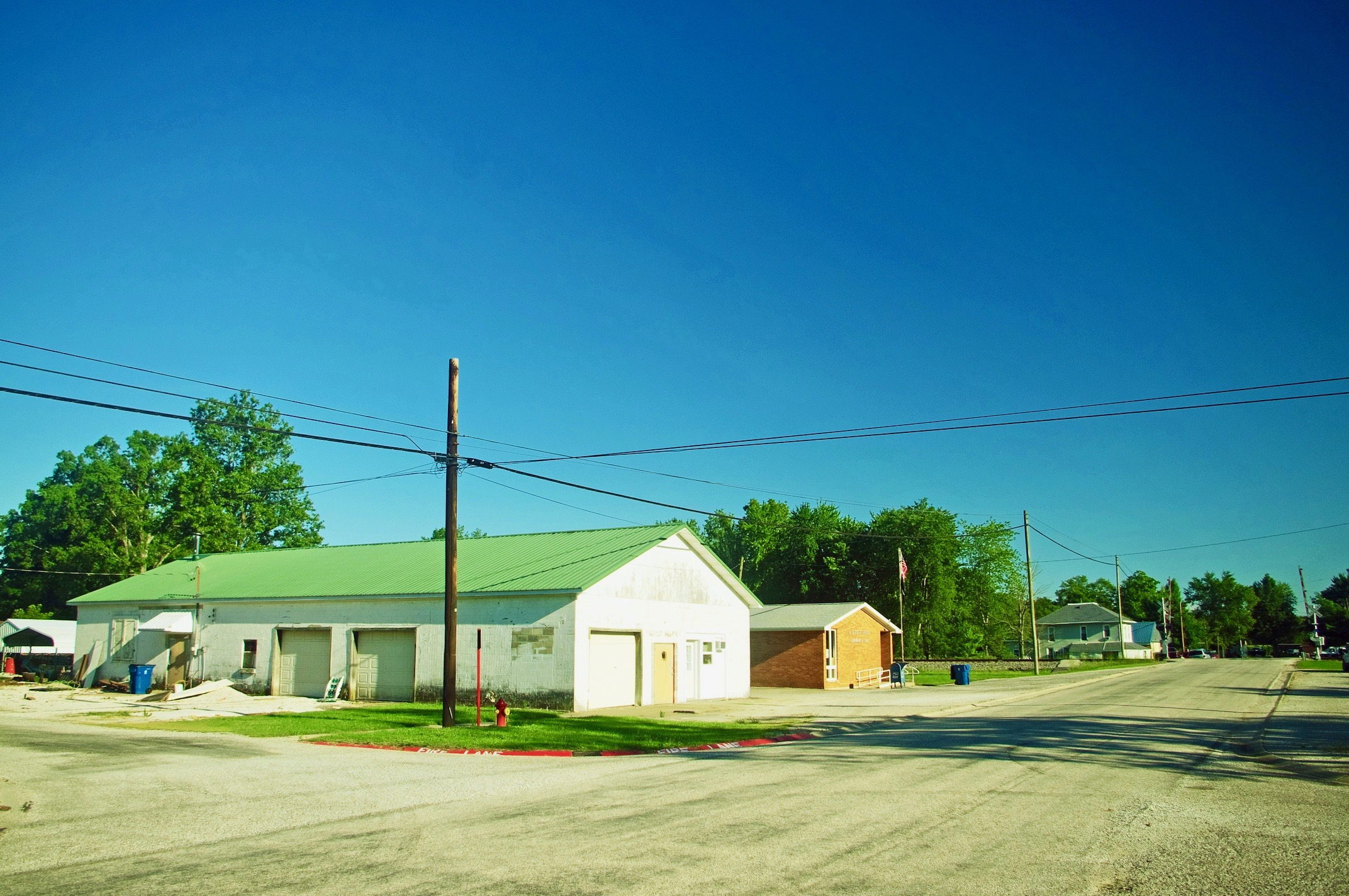 View along Washington Street in Claremont, Illinois, United States.